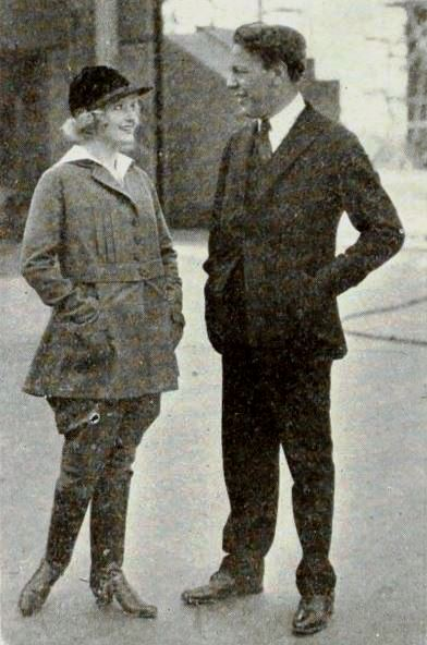 Actress May Allison and film director Maxwell Karger, on page 54 of the May 24, 1919 Exhibitors Herald.